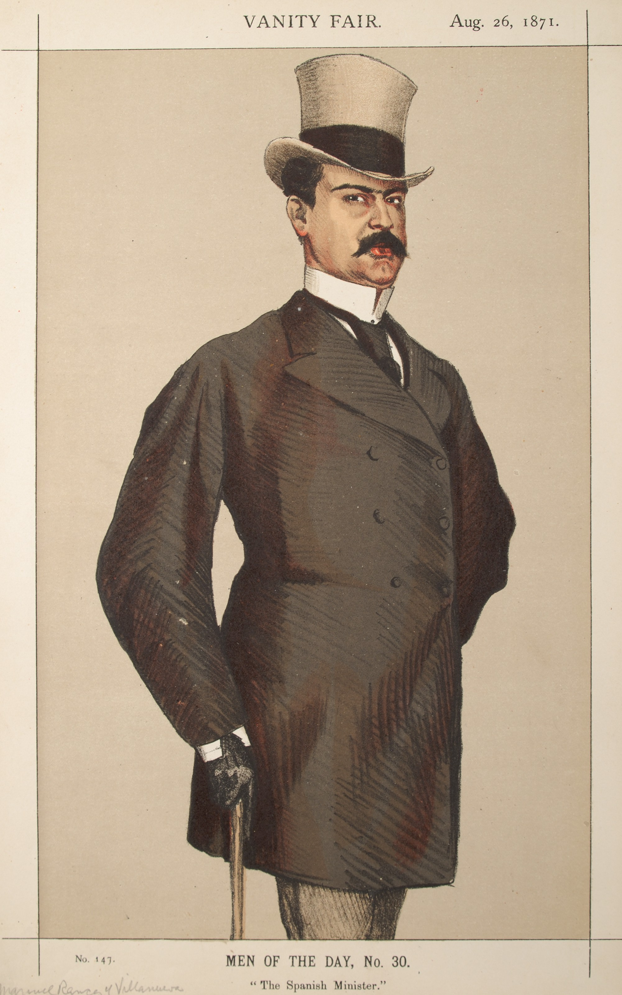 Men or Women of the Day No.30: Caricature of Don Manuel Rances y Villanueva. Caption reads: "The Spanish Minister."